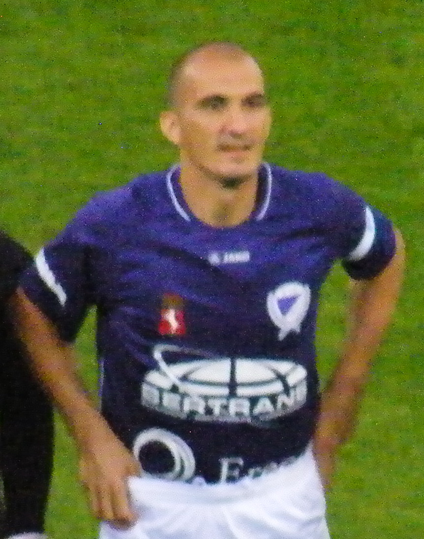 Mladen Lambulić association football player from Montenegro.